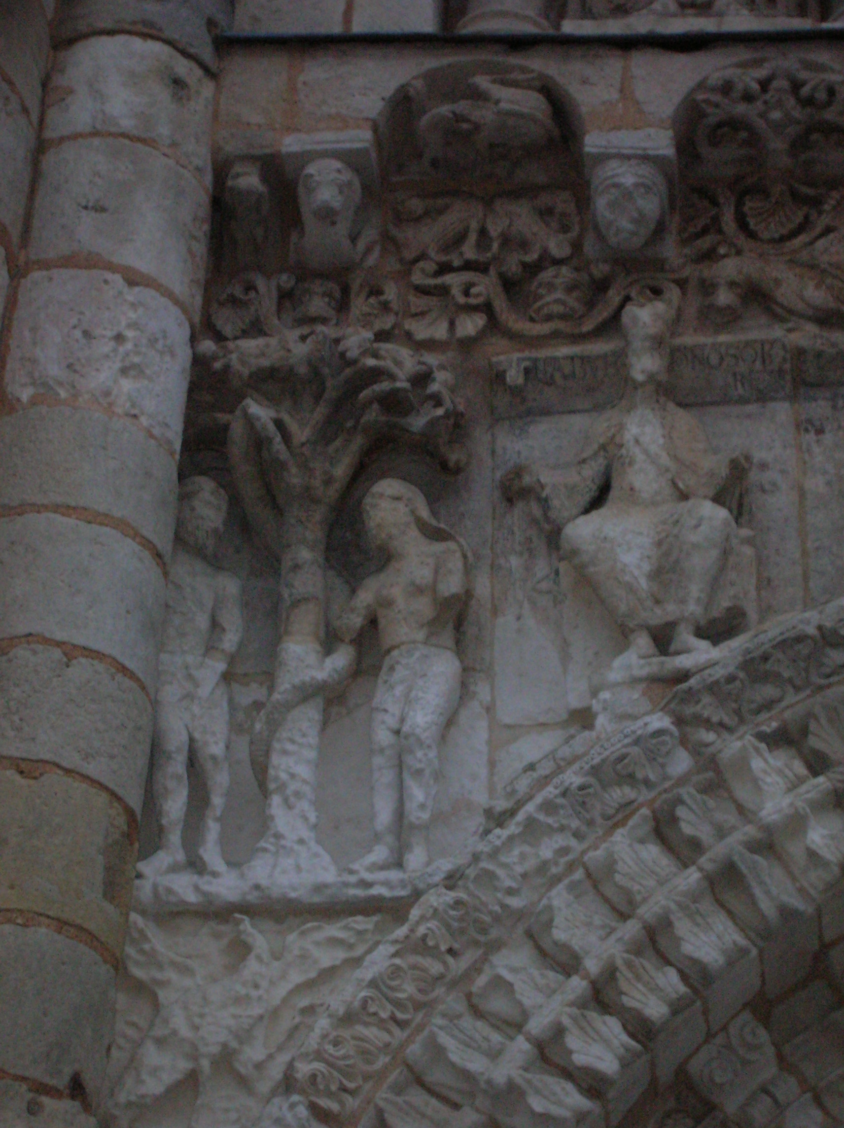 Frieze detail of Notre-Dame la Grande in Poitiers (France), showing Adam and Eve on the left and Nabuchodonosor II on the right.